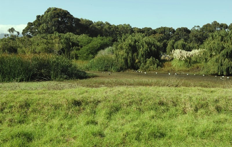 Dick Dent Nature Reserve and bird sanctuary. City of Cape Town.